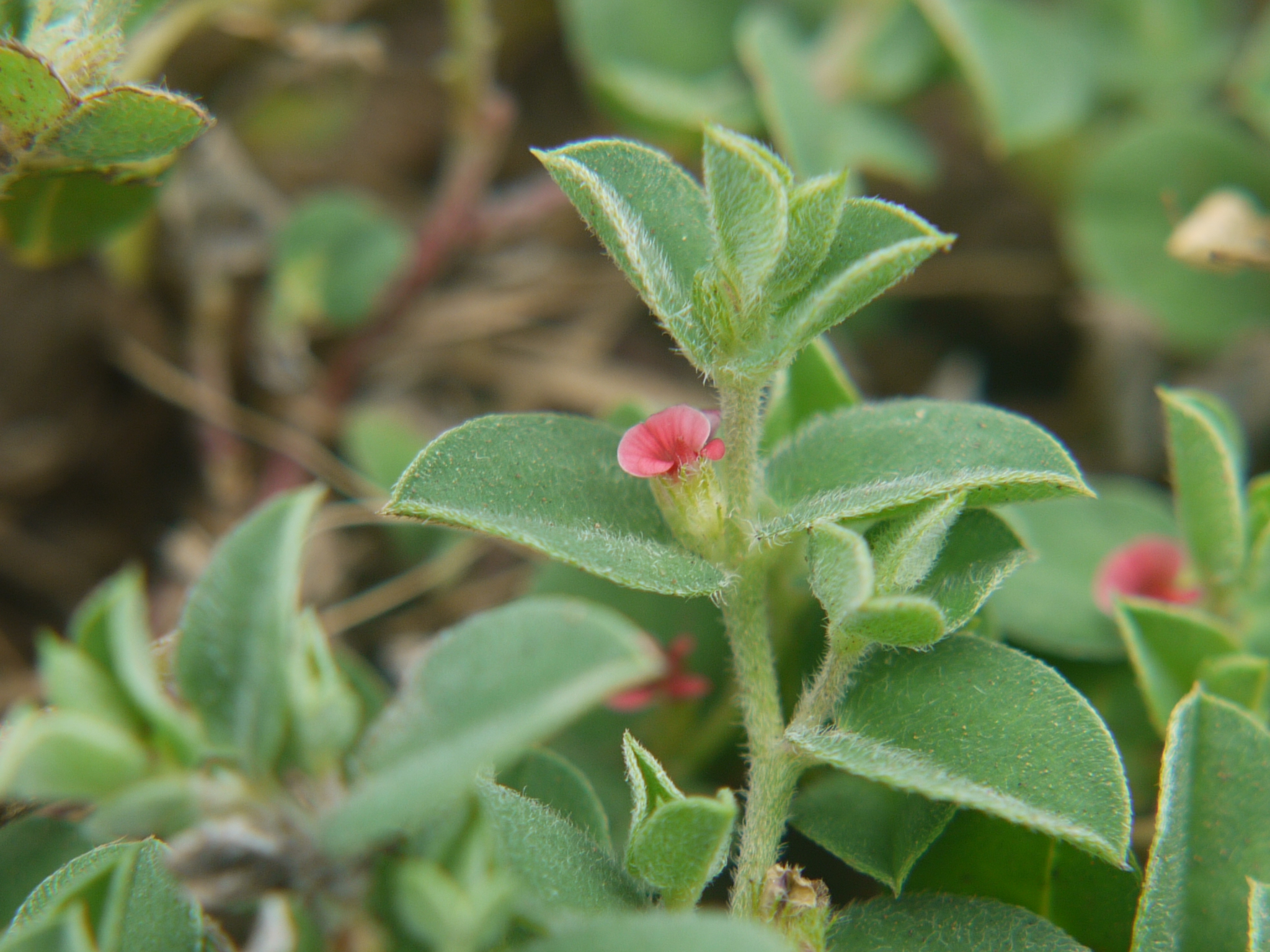 Fabaceae (pea, or legume family) » Indigofera cordifolia in-dee-GO-fer-uh -- meaning, bearing indigo kor-di-FOH-lee-uh -- heart-shaped leaf commonly known as: heart-leaf indigo • Hindi: बेकरा bekara, गोखरू gokhru, गोखुरू gokhuru • Konkani: गोड्डी goddi • Marathi: बेचका bechka, गोधडी godhadi Native to: w & n-e tropical Africa, India, Malesia, Australia References: Flowers of India • NPGS • Further Flowers of Sahyadri by S. Ingalhalikar